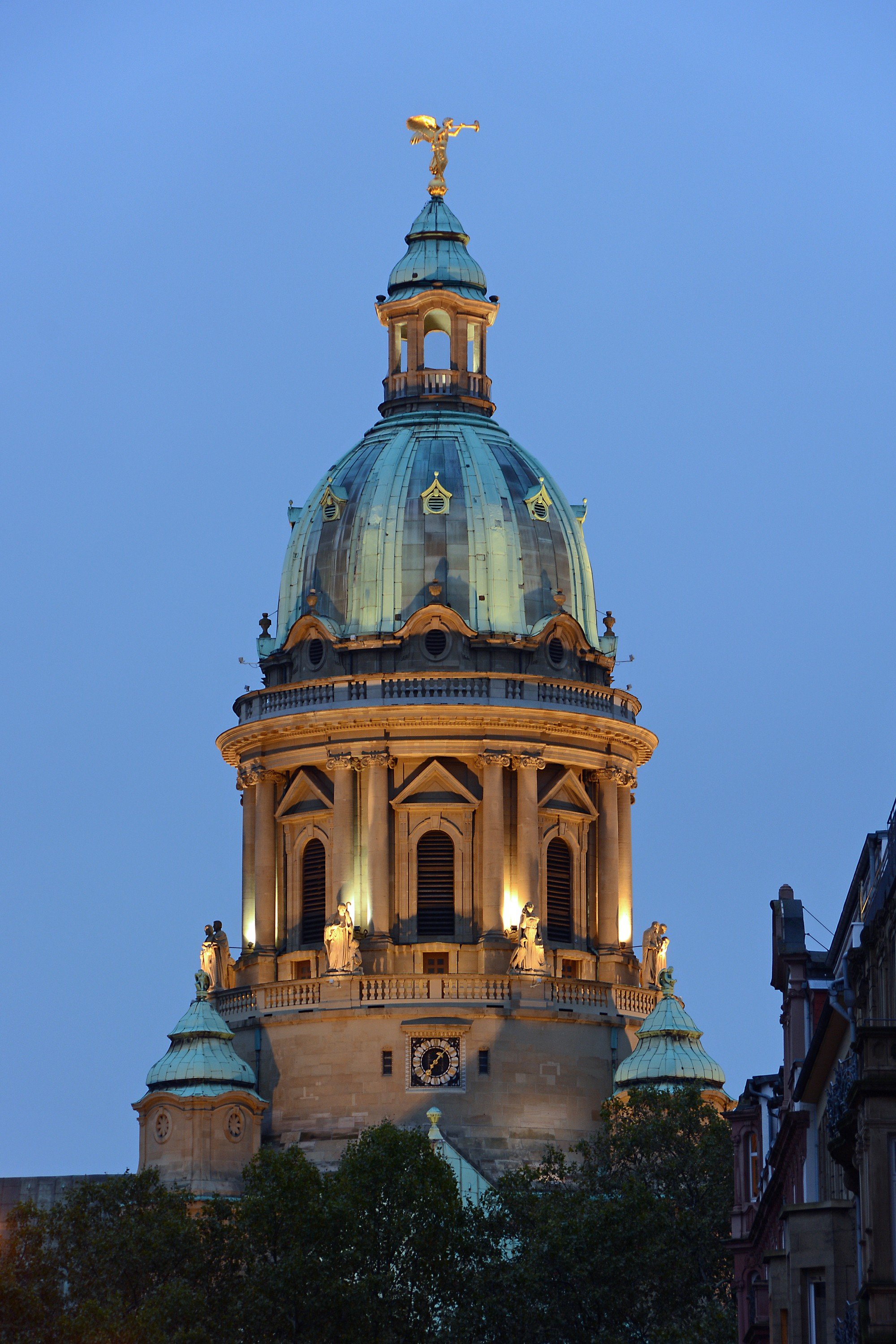 Christ Church, Mannheim, Illumination at nightfall